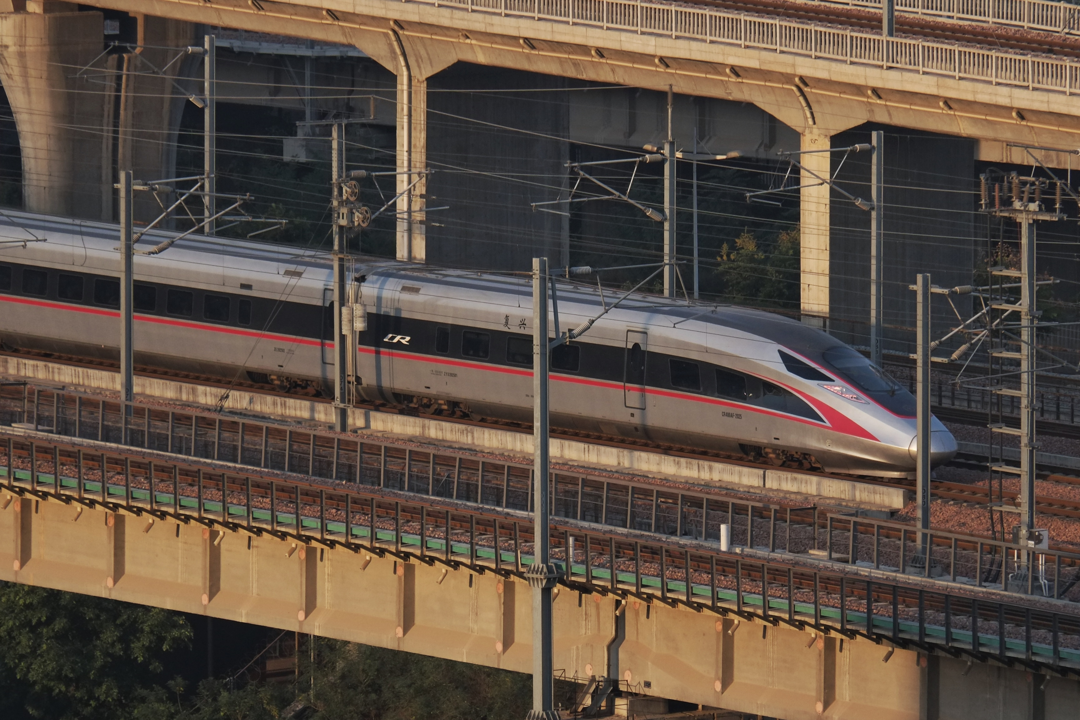 CR400AF-2025 on G664 (Xi'anbei-Beijingxi) leaving Zhengzhoudong